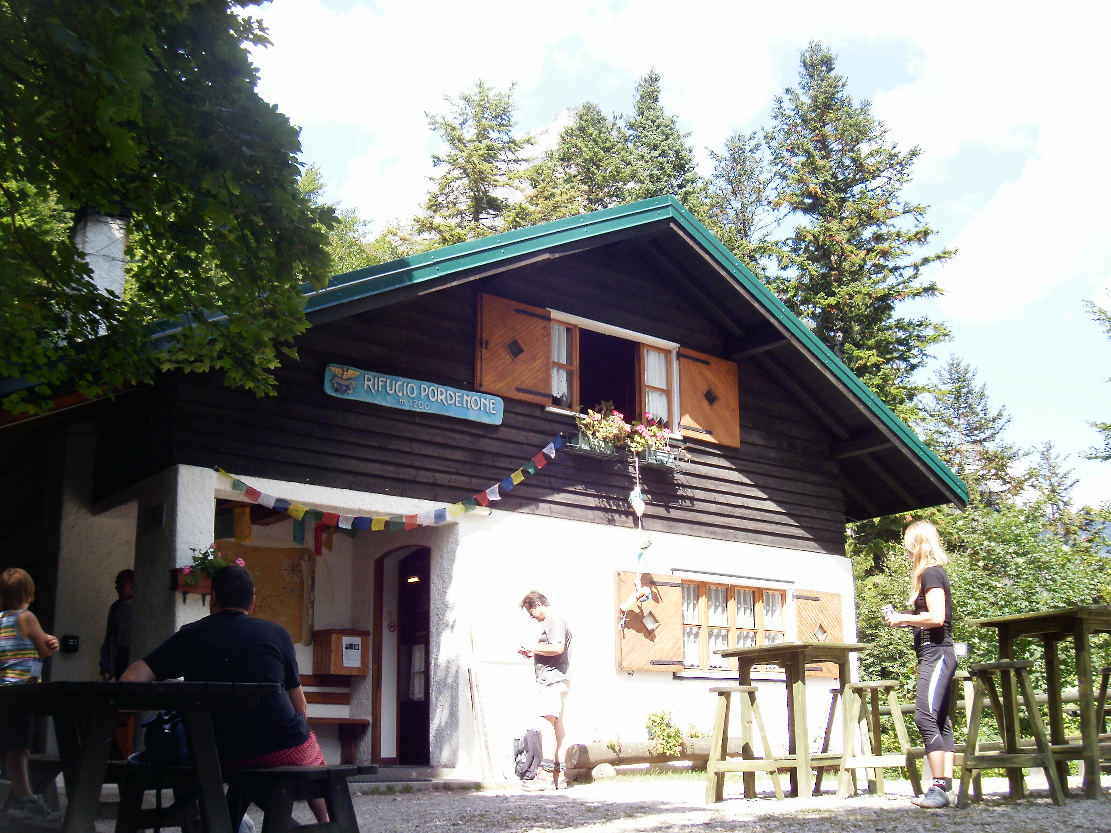 Rifugio Pordenone, 1249 m